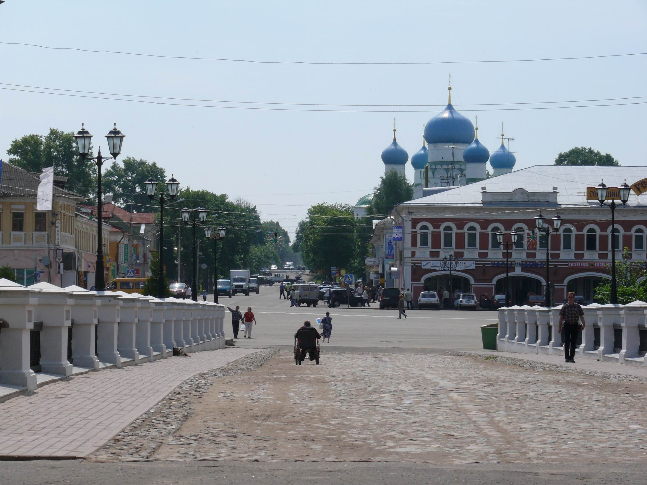 View of the Assumption area in Uglich